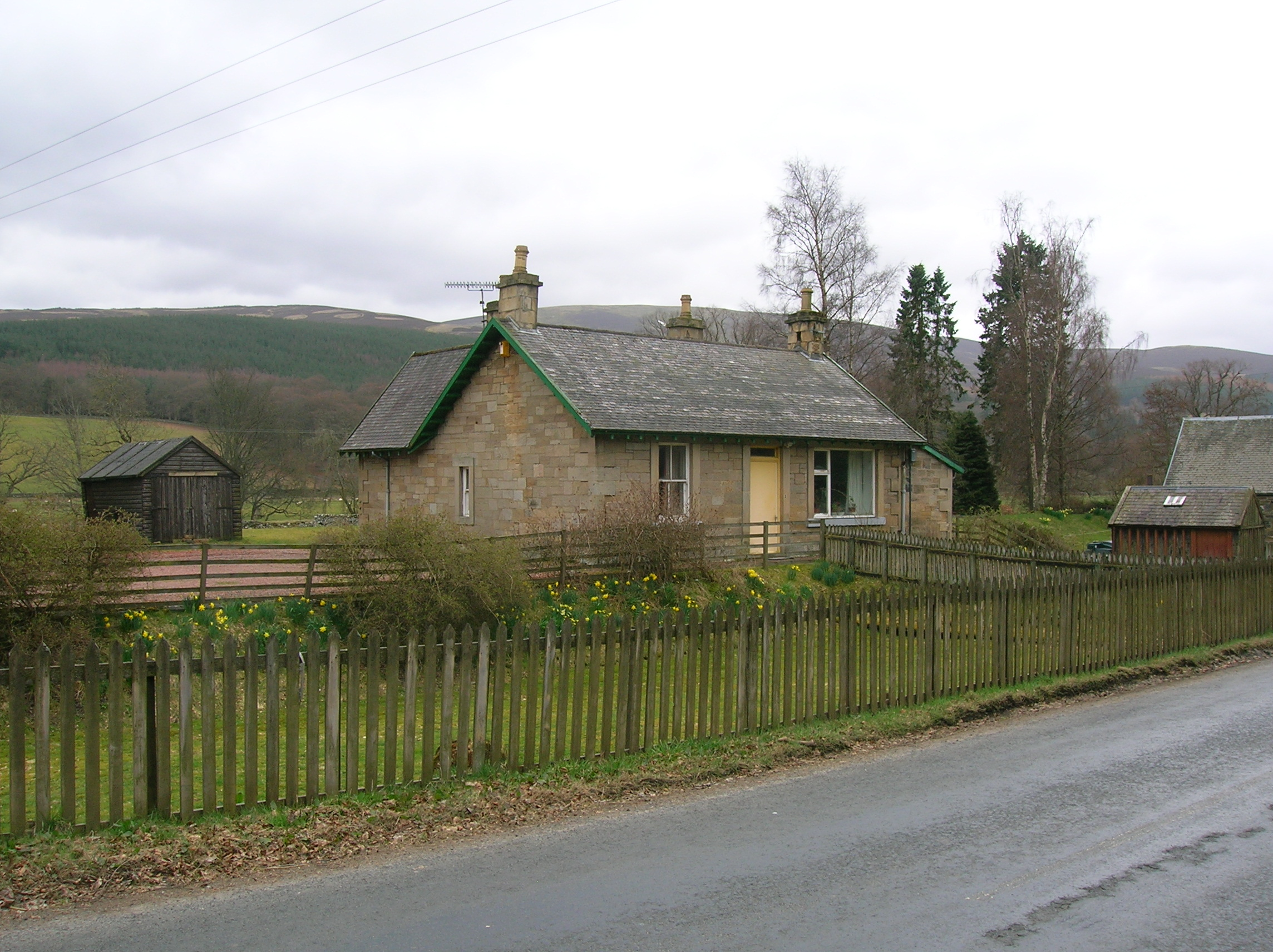 The old railway station building at Stobo Village, Borders, Scotland